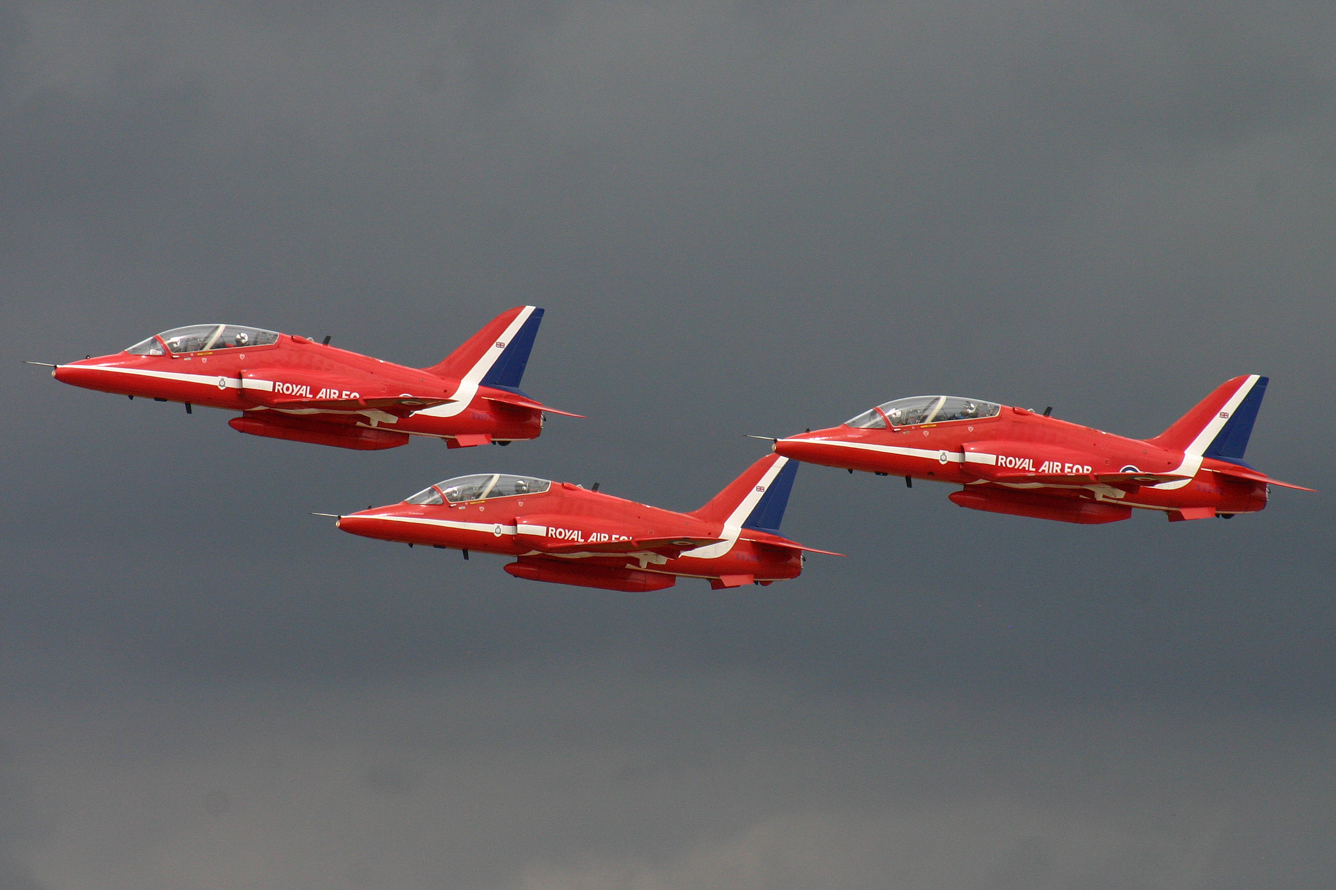 3 of the RAF Red Arrows consisting of:-T1 'XX177' msn 312024, T1 'XX242' msn 312078, T1A 'XX266' msn 312102. Departing RIAT Fairford. 18-7-2011